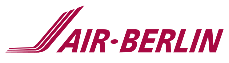 Air Berlin